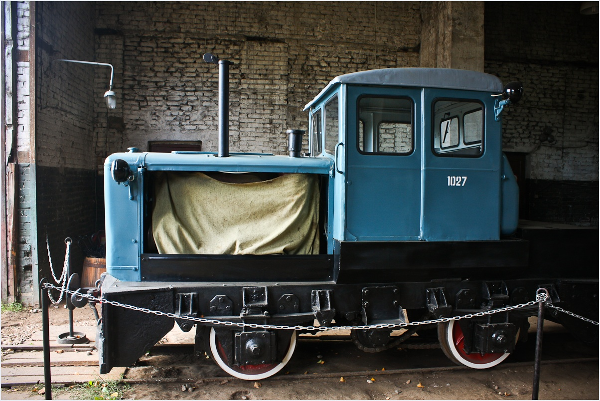 Pereslavl Railway Museum